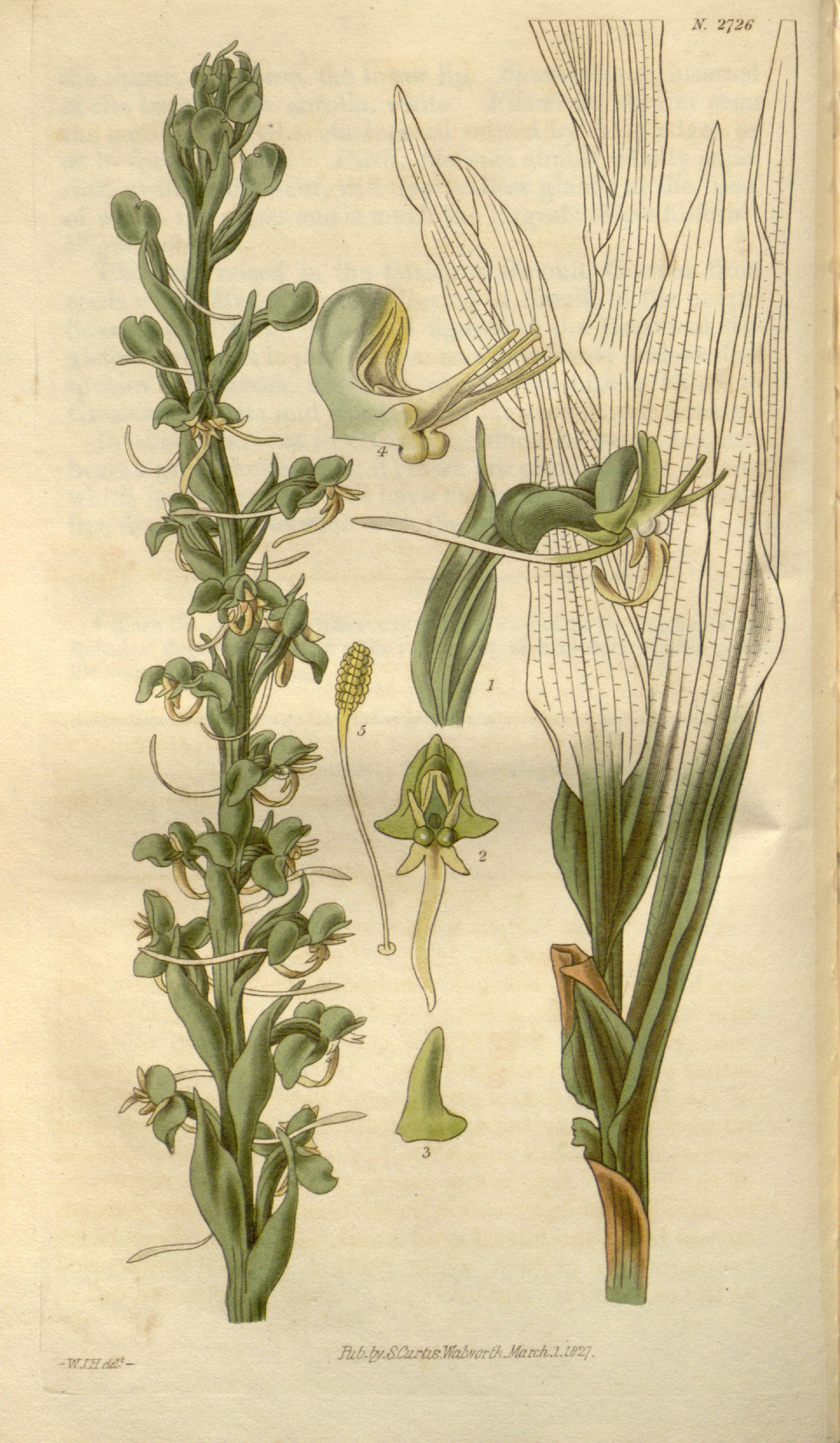 Illustration of Habenaria leptoceras